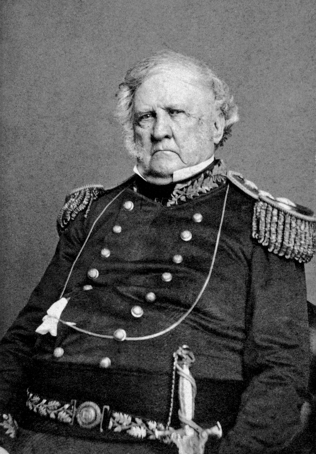 This picture of Lieut. Gen. Winfield Scott was made at West Point, N.Y., June 10, 1862. The subscribers claim that, for correctness of portraiture, finish and detail, it is pre-eminently the best portrait of the Great American Military Chieftain.